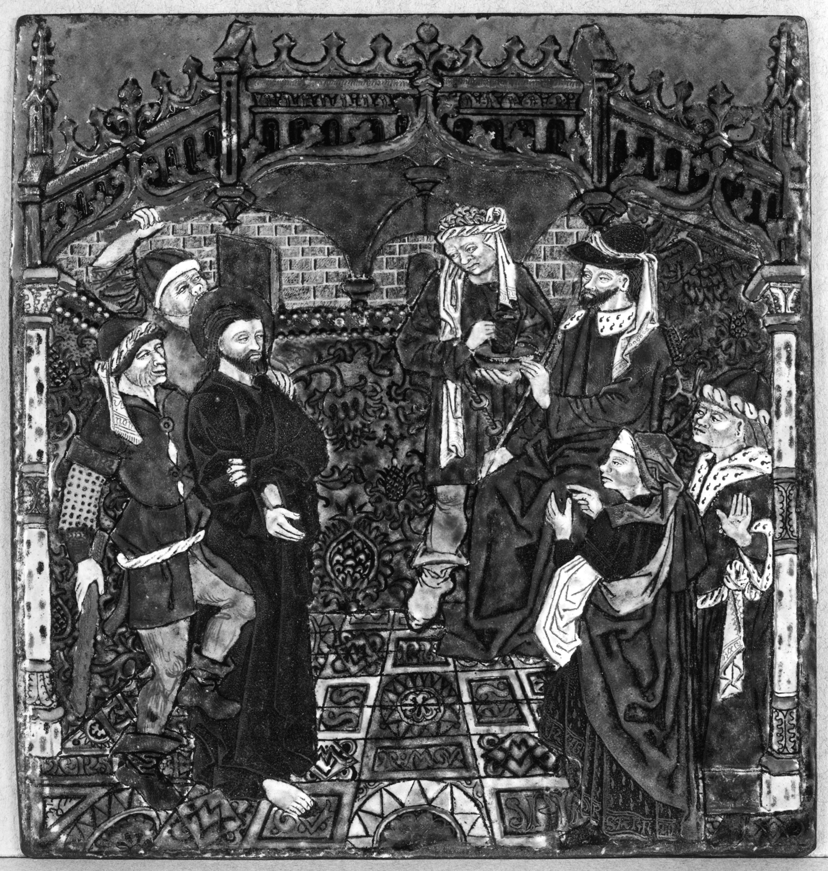 The pseudonym "Monvaerni" stems from an enigmatic inscription appearing on a plaque now in the Taft Museum, Cincinnati, and is assigned to a homogenous group of painted enamels produced at Limoges in the last quarter of the 15th century. The approximately 50 plaques which have been assigned to the "Monvaerni Master" are characterized by the awkward rendering of if the figures and the uncompromising realism. The scene of Christ before Pilate is represented as the artist might have seen it staged in a medieval mystery play. To the left, Christ is brutally pushed forward toward Pilate, who raises his hand in wonder at this prisoner Who does not seek to defend Himself. Pilate is flanked on his right by a man holding a basin and ewer in which he is to wash his hands of the affair, and on his left by the attendant sent by Pilate's wife to warn him, "Have thou nothing to do with that just man; for I have suffered many things this day in a dream because of him," (Matthew 27:19).